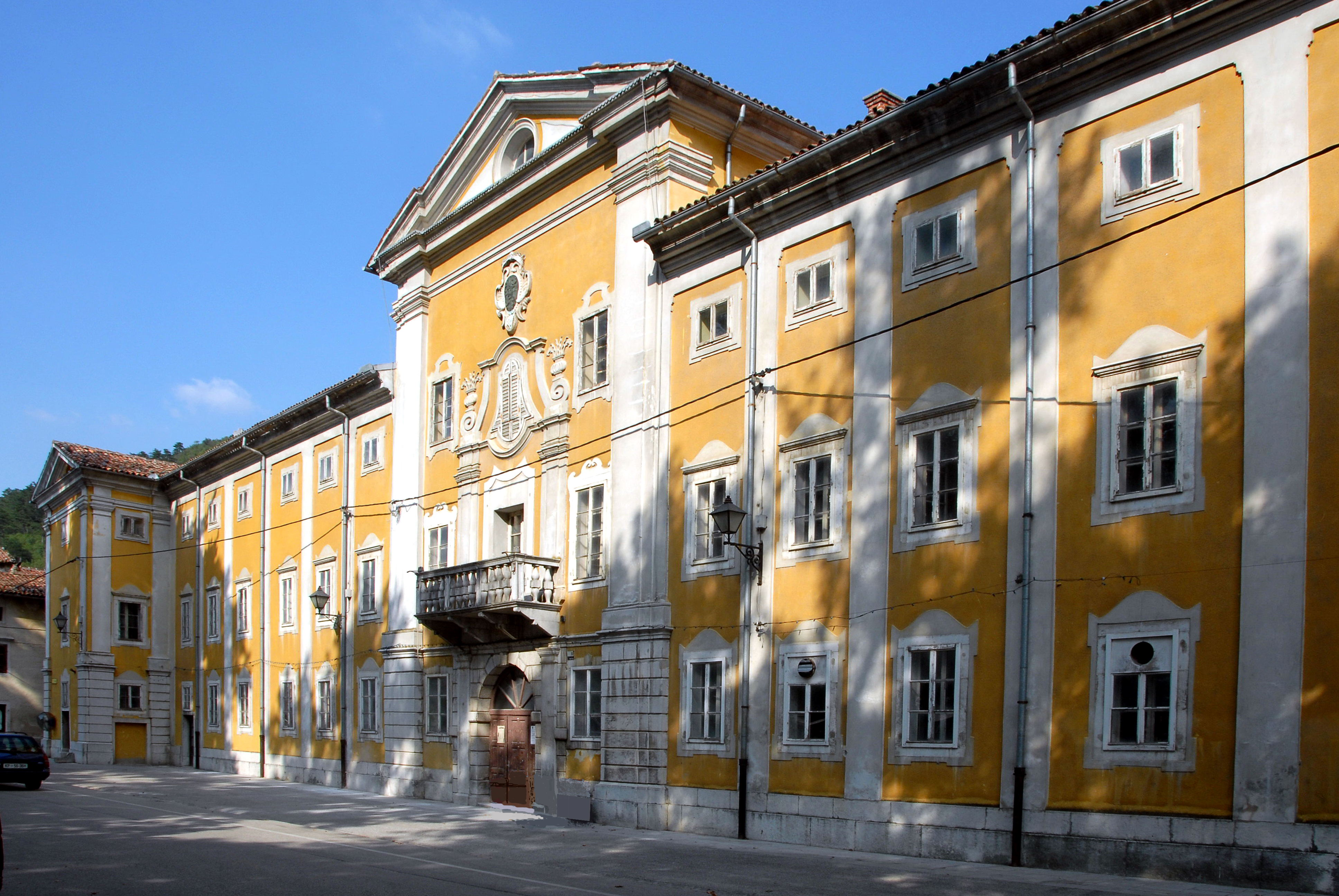 Baroque Castle Lanthieri in Vipava, Goriška, Slovenia